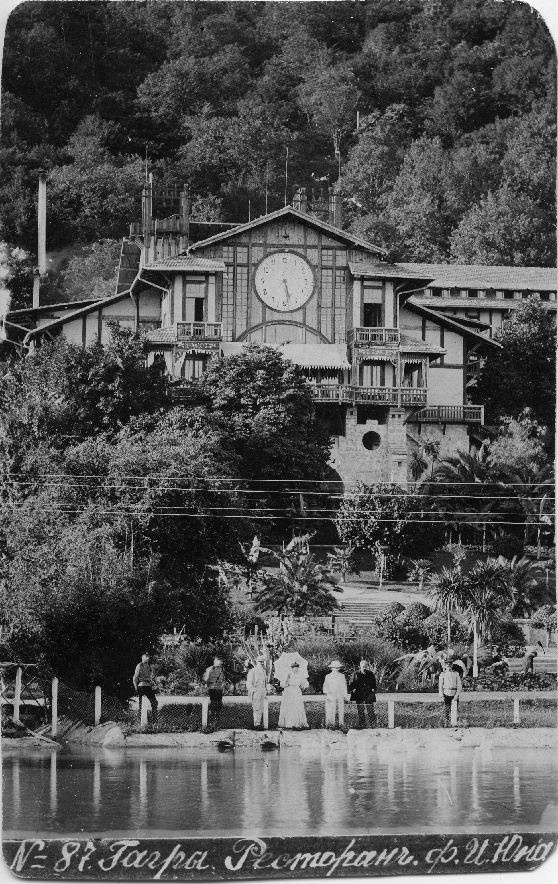 Postcard. Restaurant «Gagripsh», Gagra, Abkhazia. 1900-s.